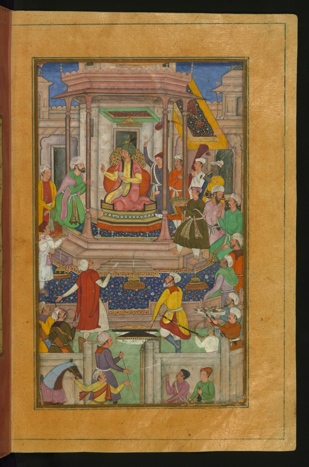 Illustrations from the Manuscript of Baburnama (Memoirs of Babur) - Late 16th Century Bāburnāma is the memoirs of Ẓahīr ud-Dīn Muḥammad Bābur (1483-1530), founder of the Mughal Empire and a great-great-great-grandson of Timur. It is an autobiographical work, originally written in the Chagatai language, known to Babur as "Turki" (meaning Turkic), the spoken language of the Andijan-Timurids. Because of Babur's cultural origin, his prose is highly Persianized in its sentence structure, morphology, and vocabulary,and also contains many phrases and smaller poems in Persian. During Emperor Akbar's reign, the work was completely translated to Persian by a Mughal courtier, Abdul Rahīm, in AH (Hijri) 998 (1589-90). These Paintings, being a fragment of a dispersed copy, was executed most probably in the late 10th AH /16th CE century. It contains 30 mostly full-page miniatures in fine Mughal style by at least two different artists. Another major fragment of this work (57 folios) is in the State Museum of Eastern Cultures, Moscow.